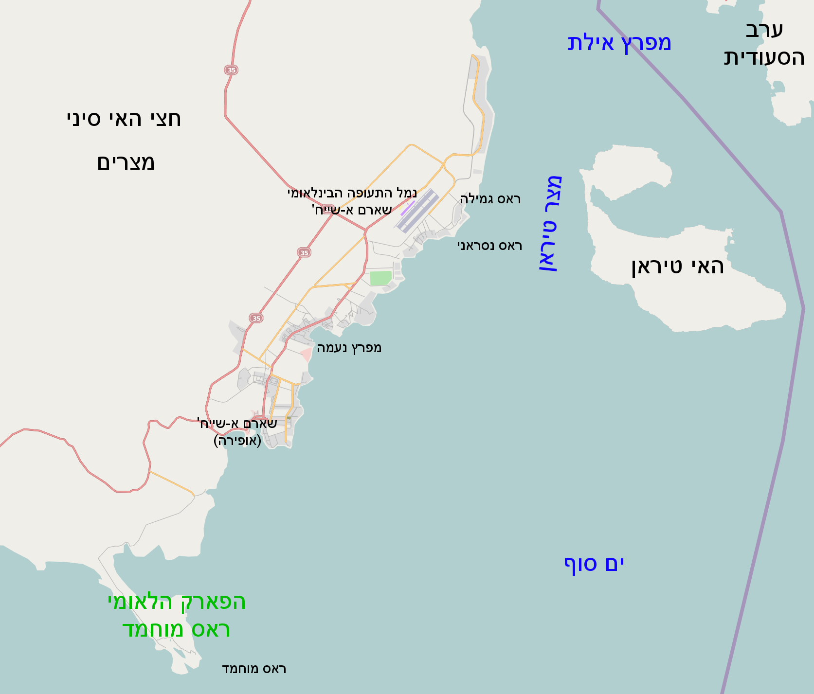 South sinai map